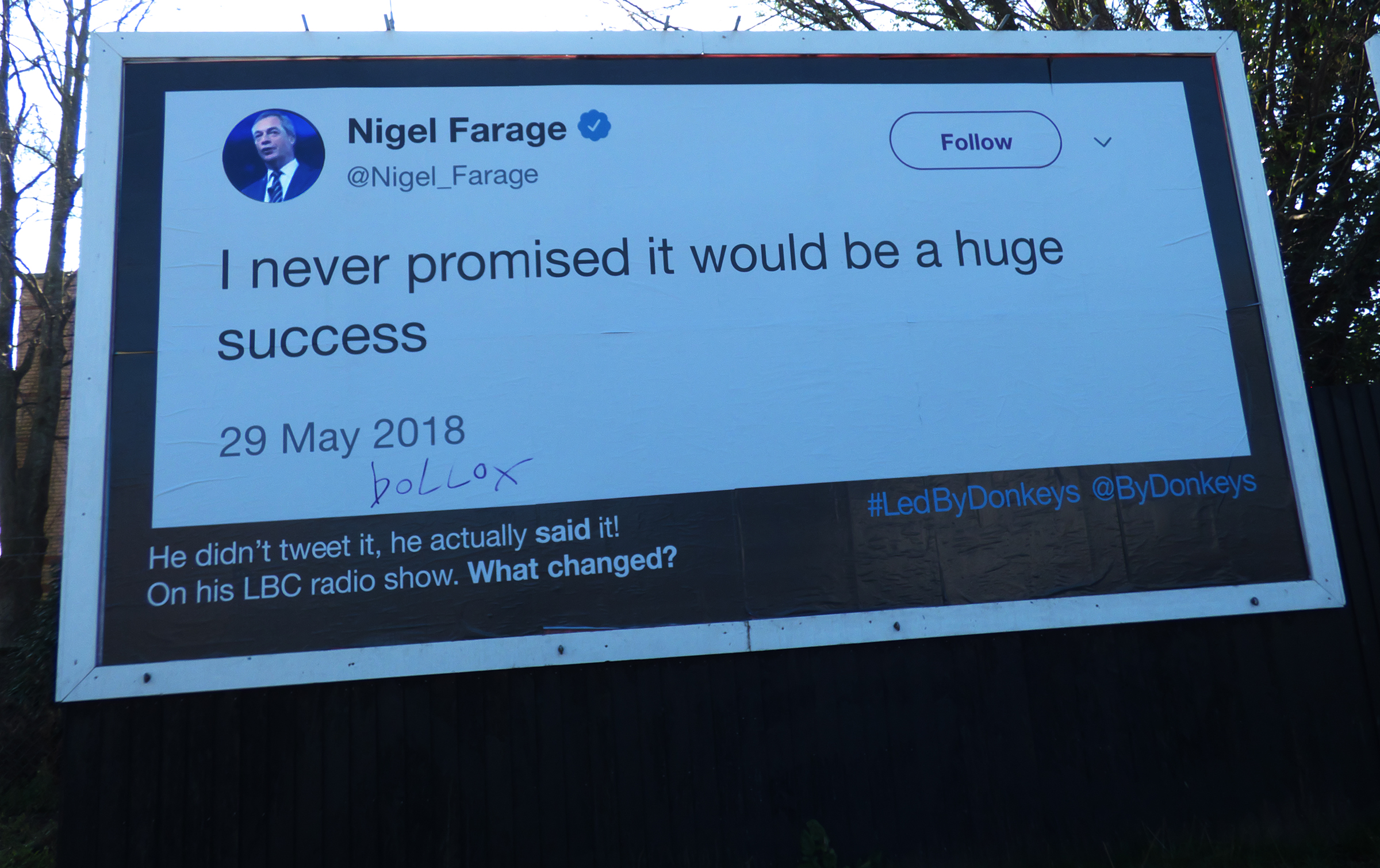 Billboard on Winterstoke Road in Bristol, showing a Brexit quote from Nigel Farage, designed and paid for by British anti-Brexit campaign group Led By Donkeys